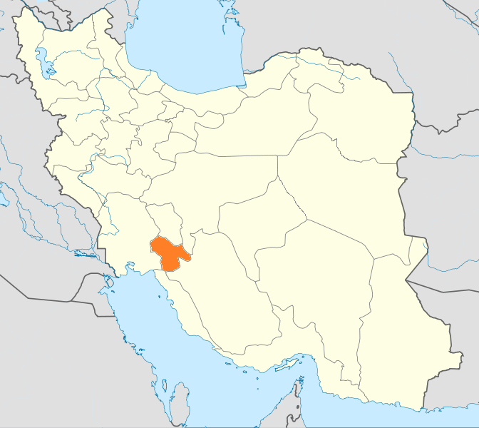 Locator map of Iran